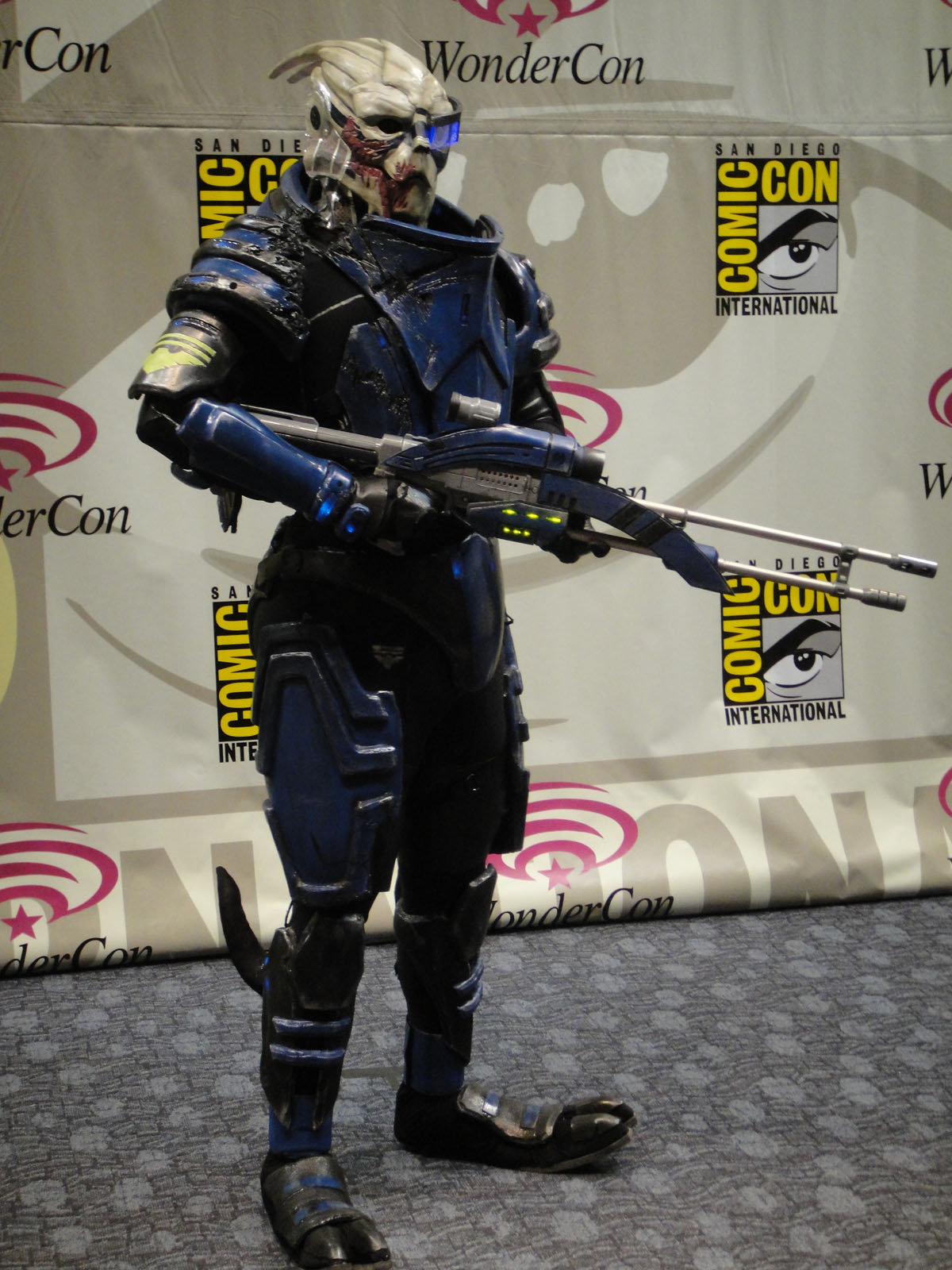 WonderCon 2011 Masquerade - Garrus Vakarian from Mass Effect